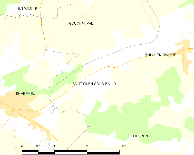 Map of French municipality Saint-Ouen-sous-Bailly